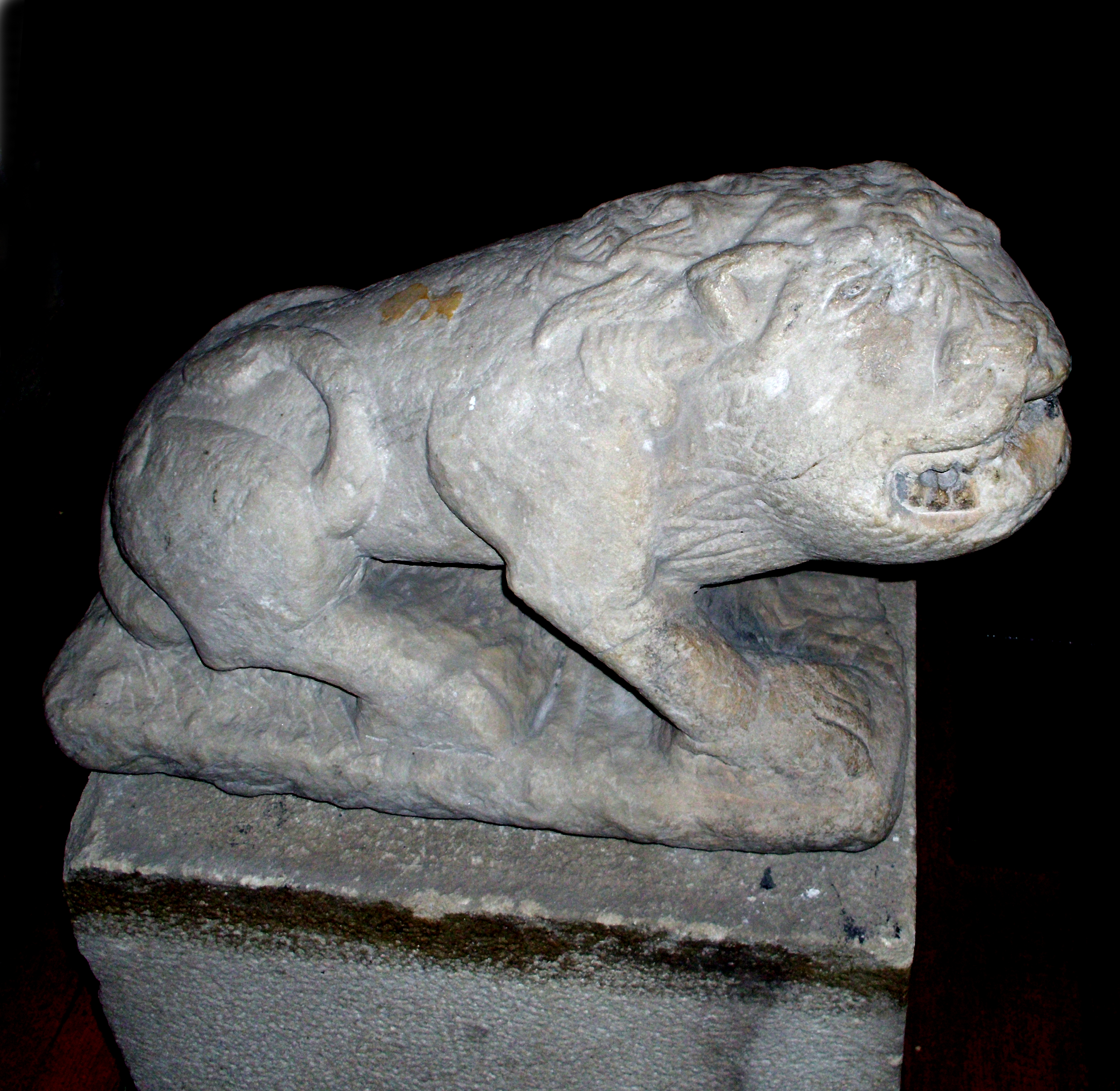 Makri in Aegean Thrace - First Bulgarian Empire - Tzar Simeon the Great Tzar Simeon the Great age marble leon